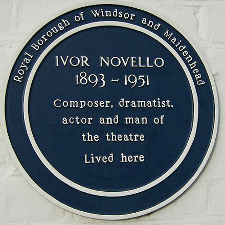 Ivor Novello Blue Plaque, Redroofs, Littlewick Green, Berkshire